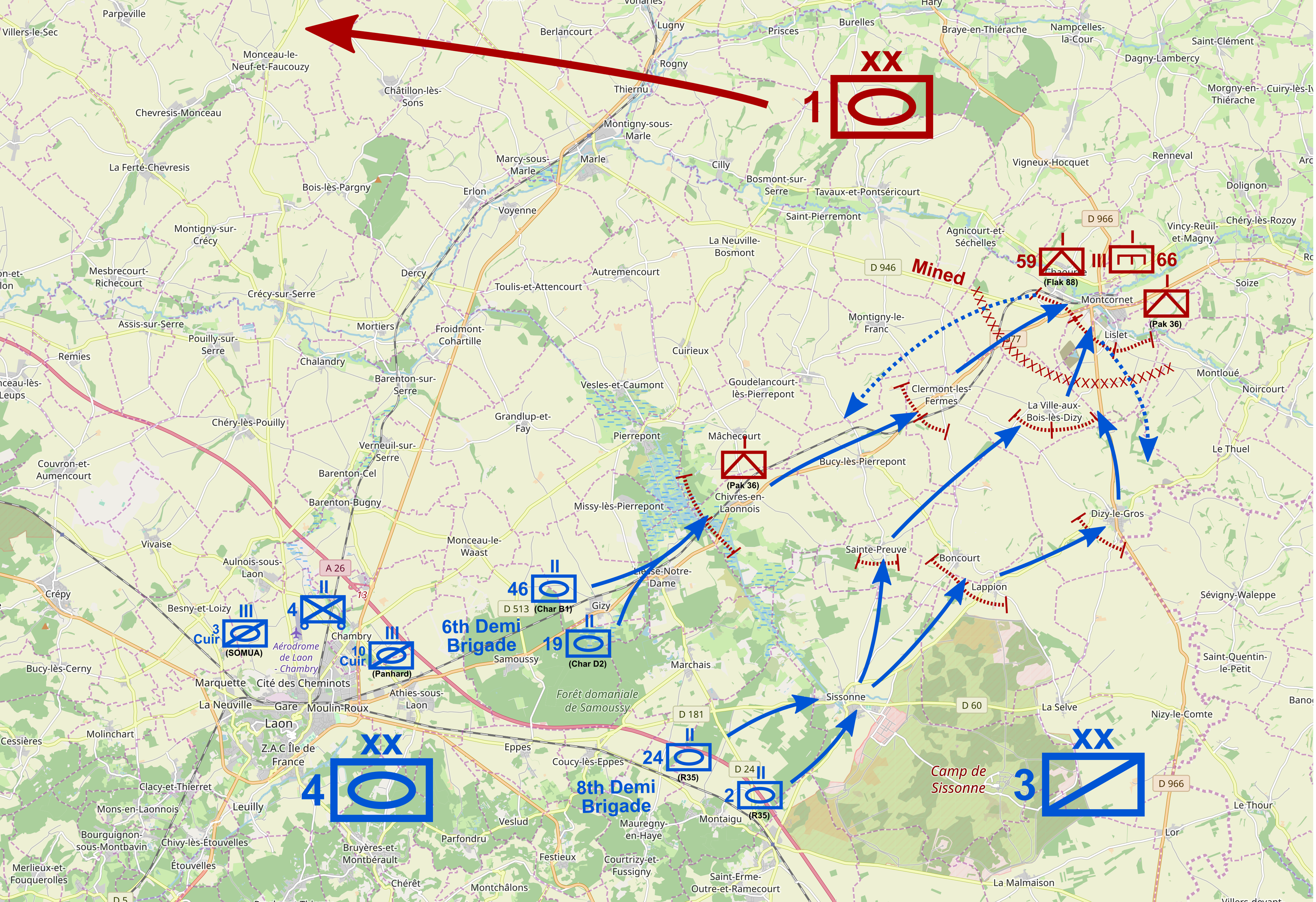 Map showing the battle at Montcornet, May 17 1940. This map may be incomplete, and may contain errors. Don't rely solely on it for navigation.